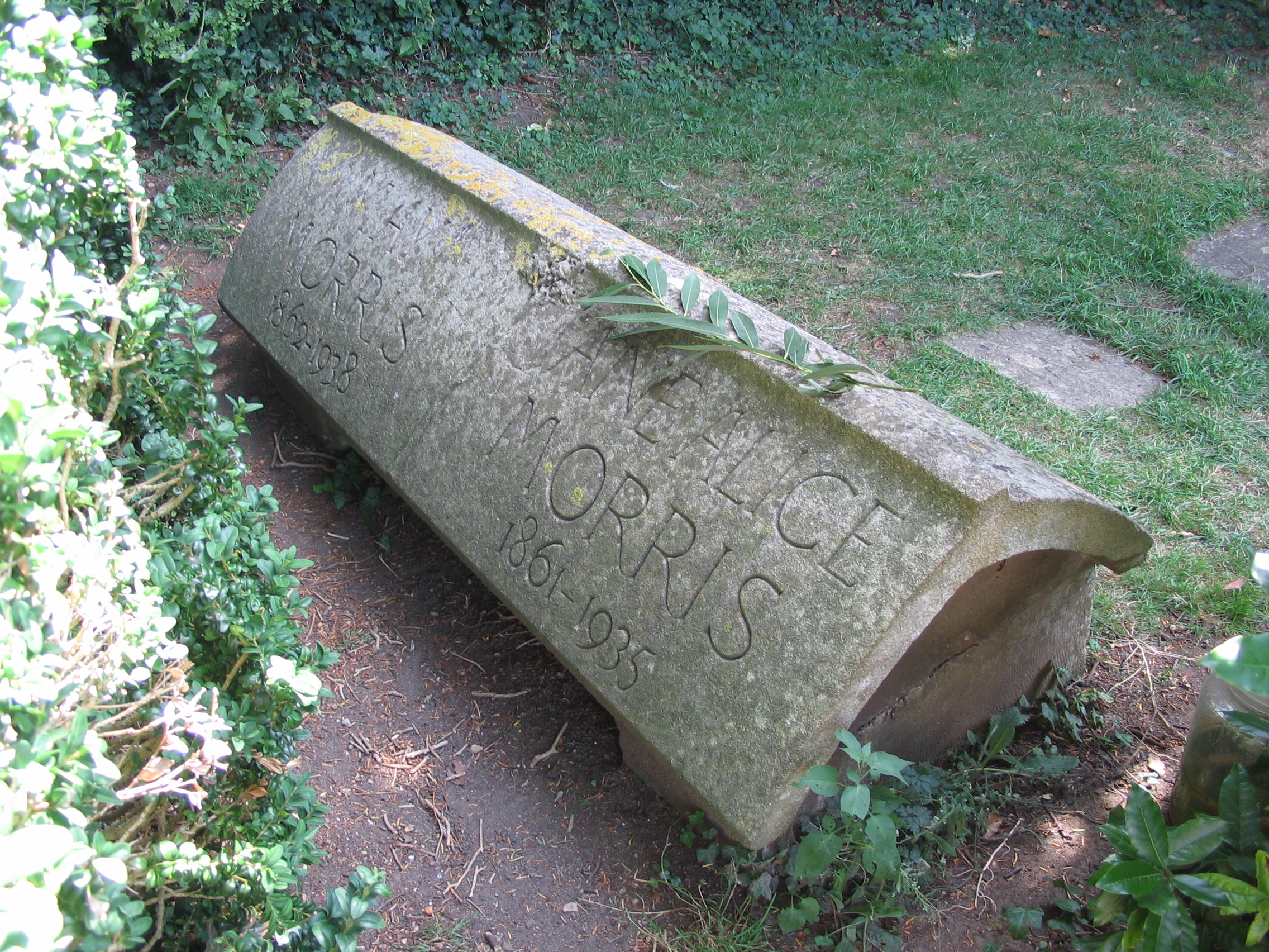 Morris family memorial in St George's parish churchyard, Kelmscott, Oxfordshire. Designed by Philip Webb and made in 1896.